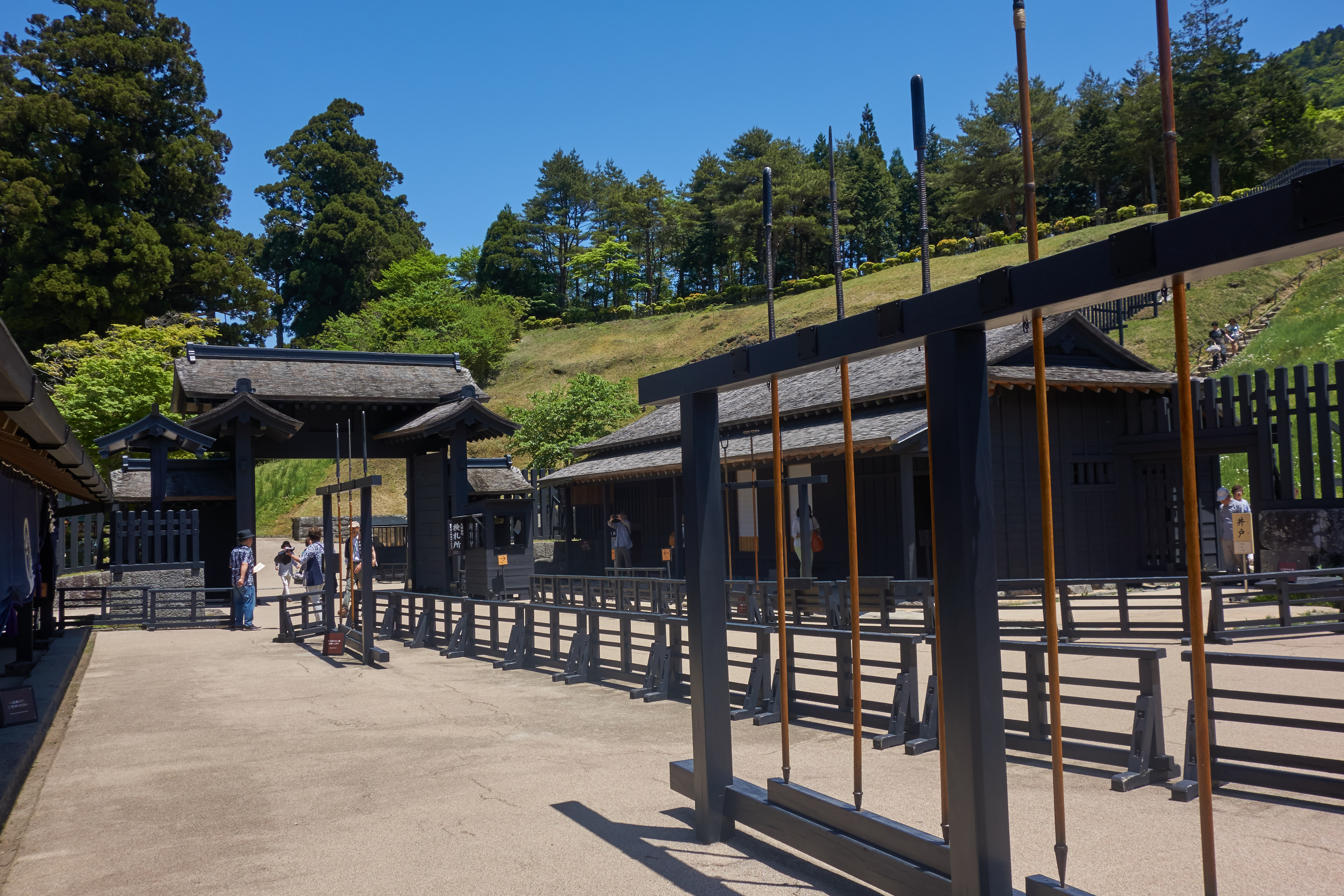 Hakone Checkpoint Museum, May 2017